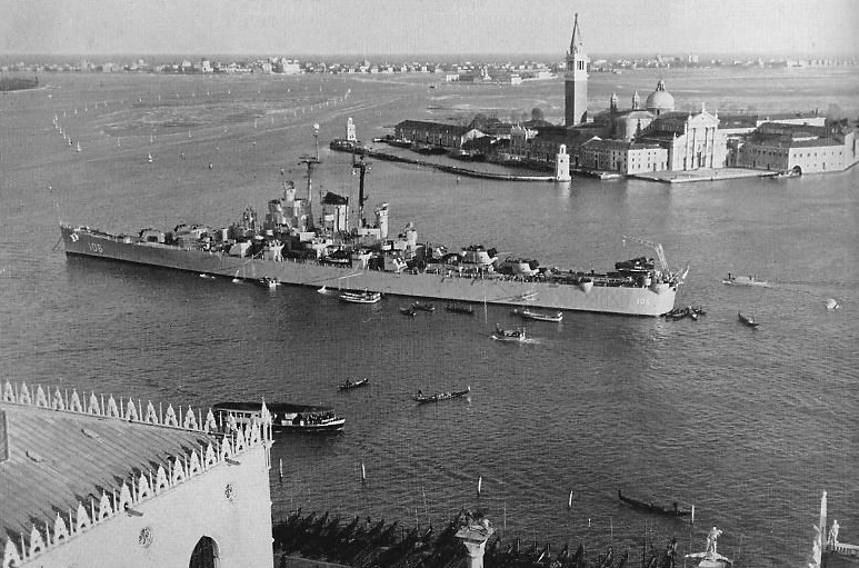 The U.S. Navy light cruiser USS Fargo (CL-106) at anchor at Venice, Italy, in 1949. San Giorgio Maggiore is visble in the background.